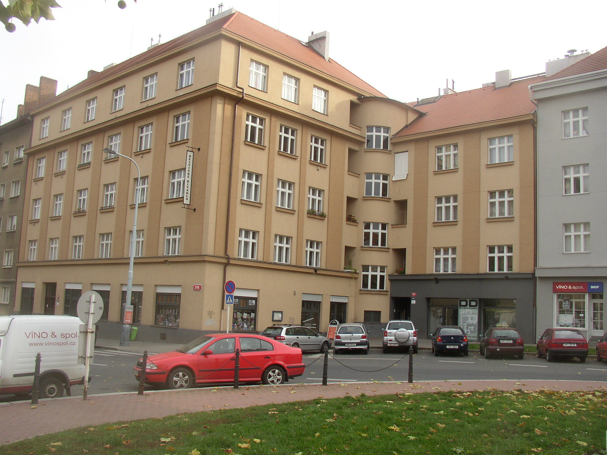 Dejvické divadlo (Dejvice Theatre) in Prague, Czech Republic.